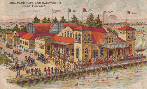 Luna Park Cafe and Natatorium, Seattle